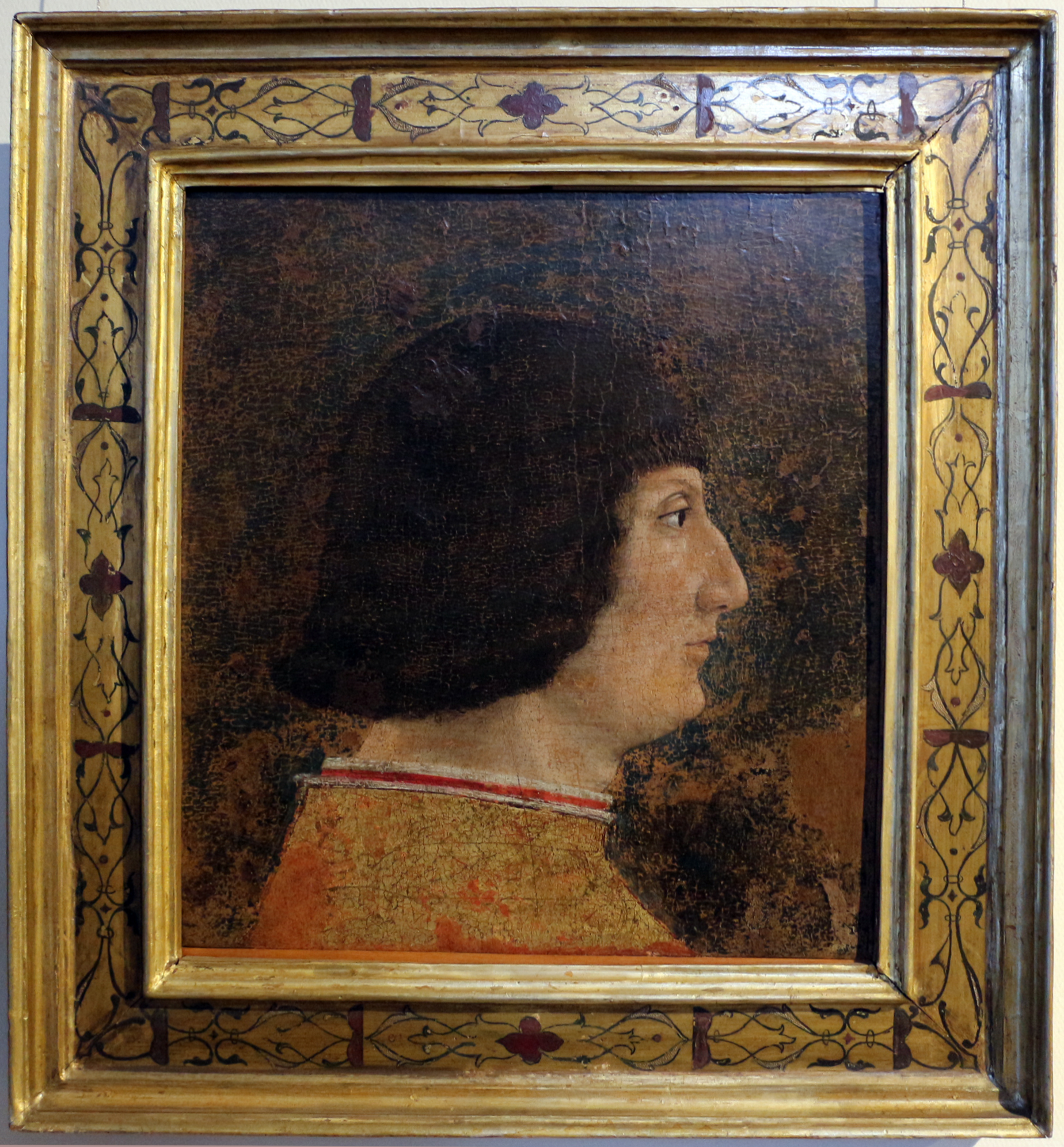 Pinacoteca del Castello Sforzesco